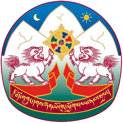 Tibetan coat of arms